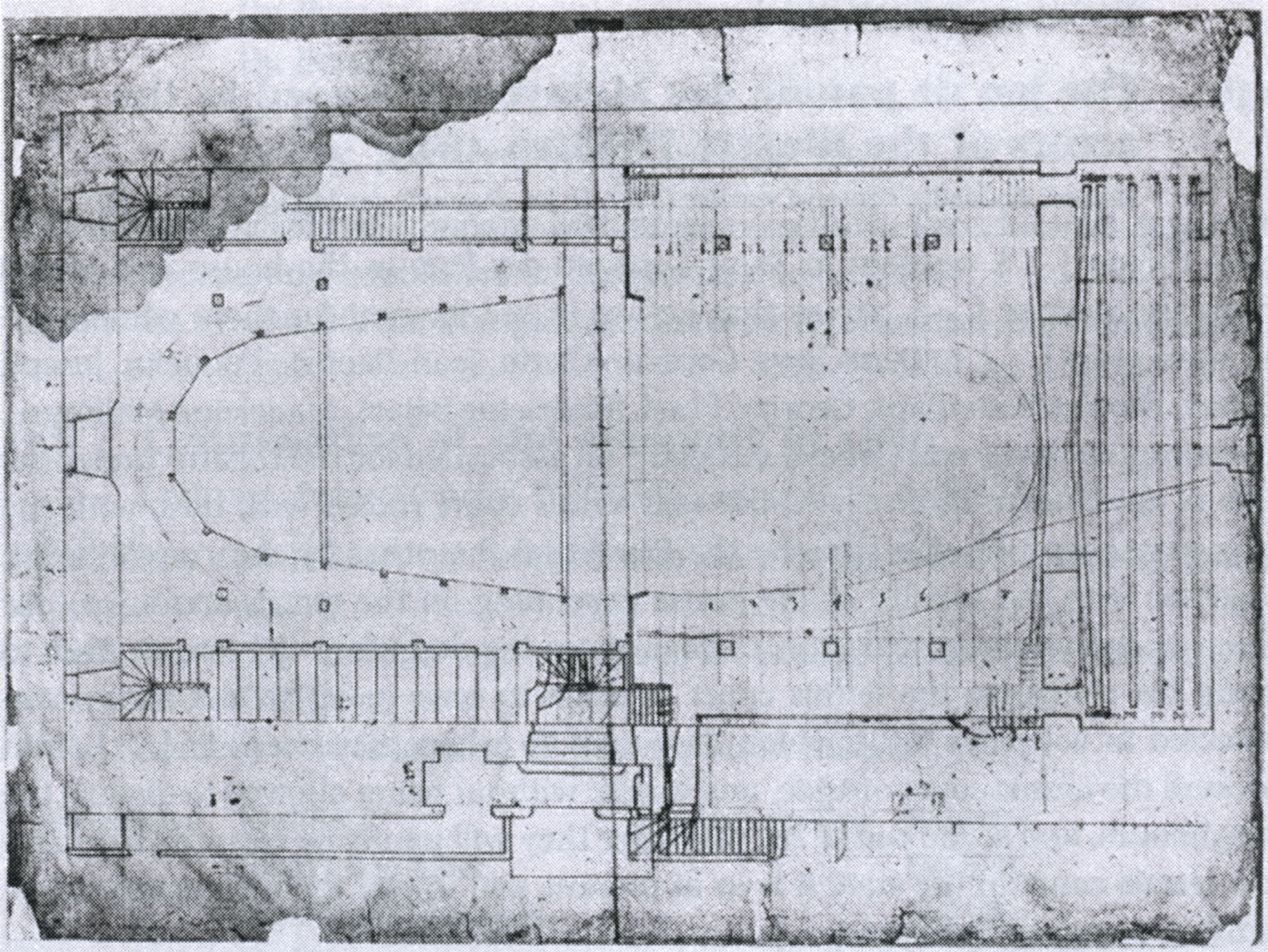 Floorplan of the first Salle du Palais-Royal as it appeared in the 1673 renovation carried out by Carlo Vigarani.